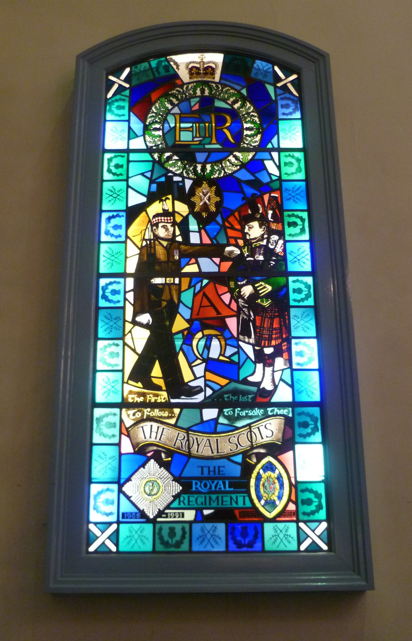 Royal Scots Regiment window, Canongate Kirk